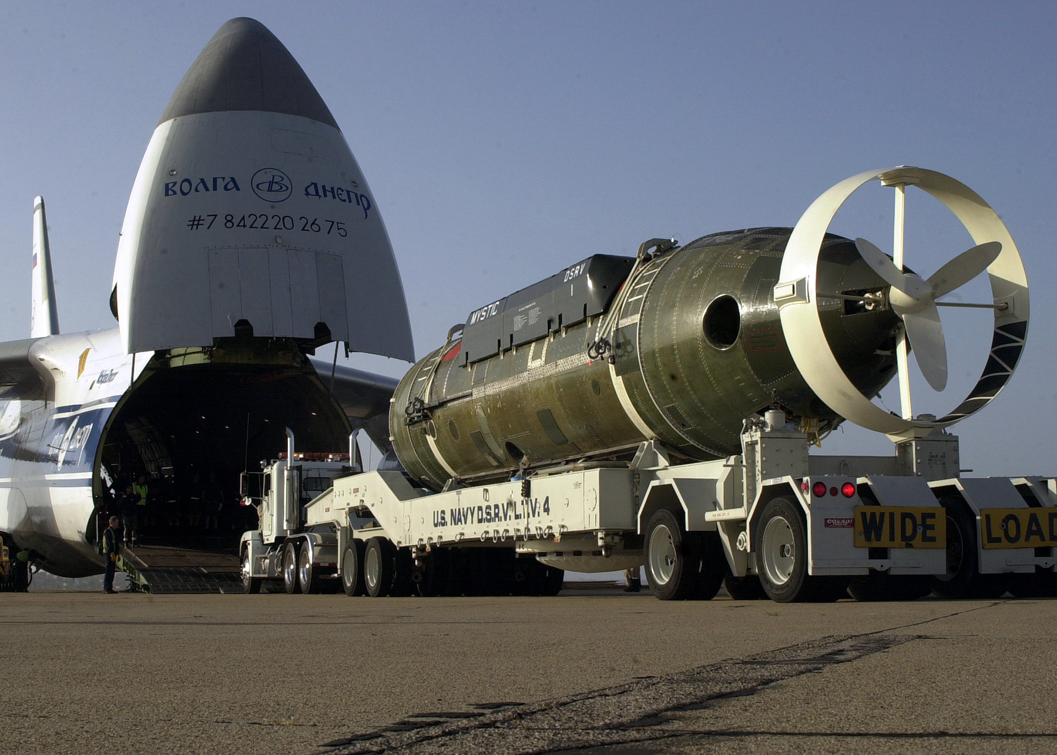 Naval Air Station North Island, California. (Apr. 29, 2004) — The Deep Submergence Rescue Vehicle Mystic (DSRV 1) is carefully loaded onto a Russian-built An-124 Condor (Antonov) by sailors assigned to the U.S. Navy's Deep Submergence Unit (DSU) and the aircraft's crew. The An-124 is owned and operated by the Volga-Dnepr Group based in Russia. The Mystic and 13 members of her crew are being flown to the Republic of Korea to participate in Exercise Pacific Reach. The exercise improves submarine rescue capabilities and also fosters a familiarization between different nations with submarine rescue techniques. U.S. Navy photo by Photographer's Mate 1st Class Daniel N. Woods. (RELEASED)